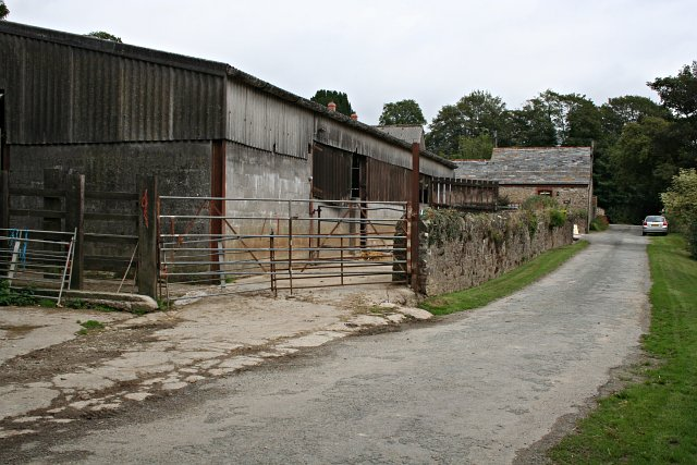 Tregolls. This looks to be a working farm but it is also involved in providing holiday accommodation.